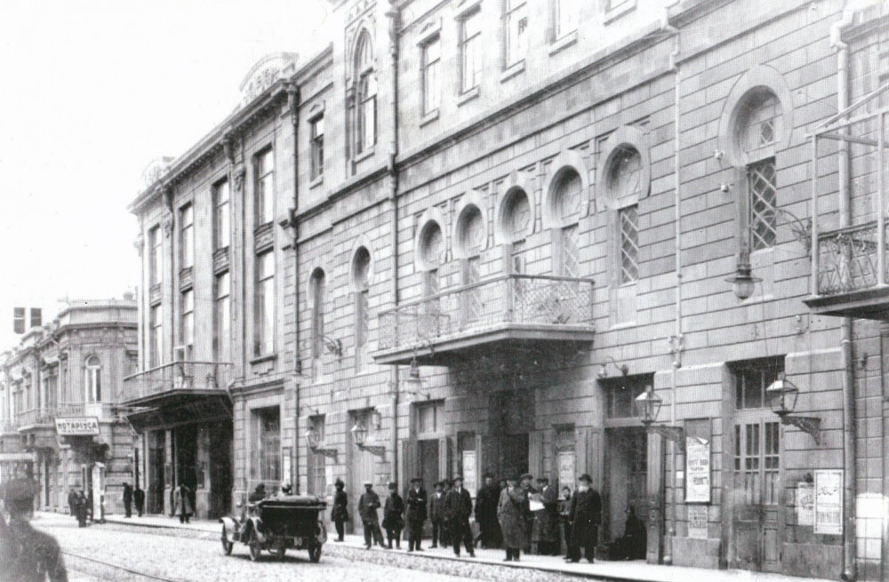 Theatre of Tagiyev in Baku